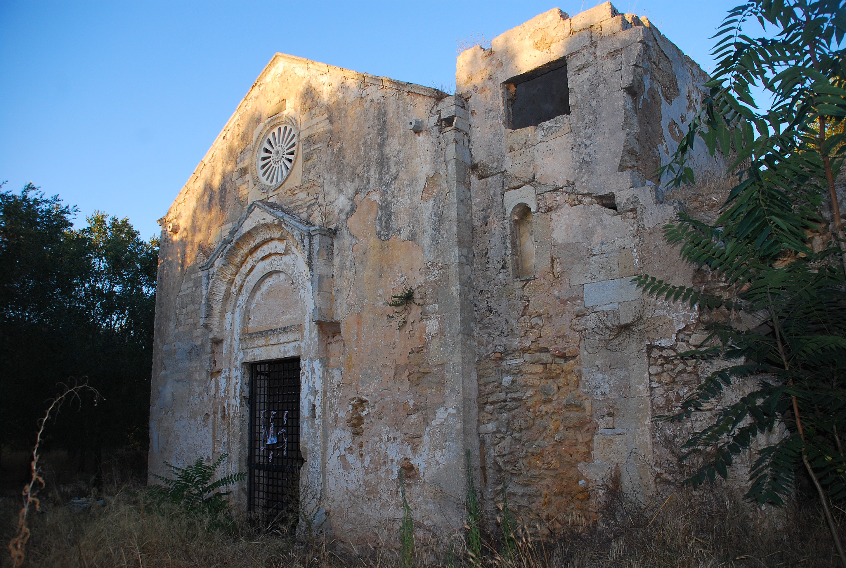 Romanic Church in Apulia